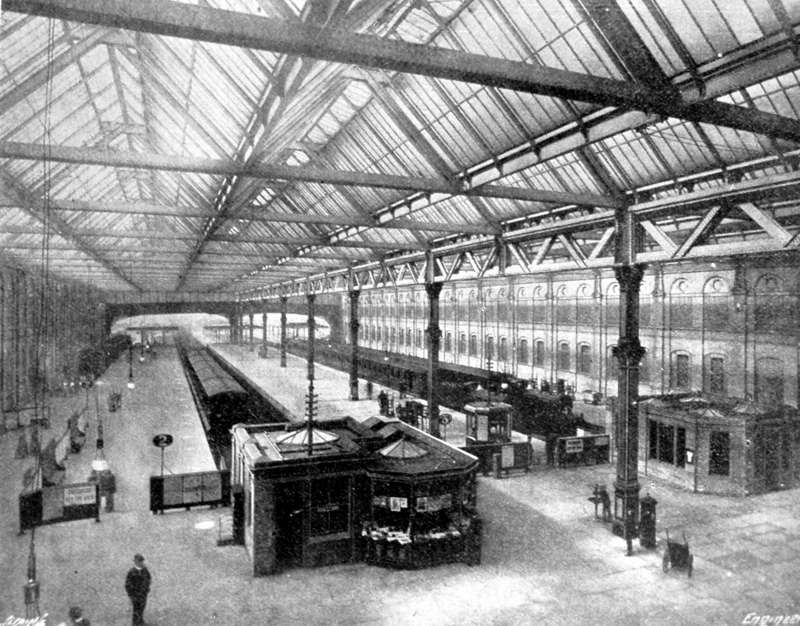 Photo shows the station as it looked after 1887-90 rebuilding. Designed by Charles Trubshaw, MR architect. High two-aisled trainshed, sized 2 x 27,4 m x 167,6 m, covered by a ridge-and-furrow roof with glazed roof slopes within the truss depth.